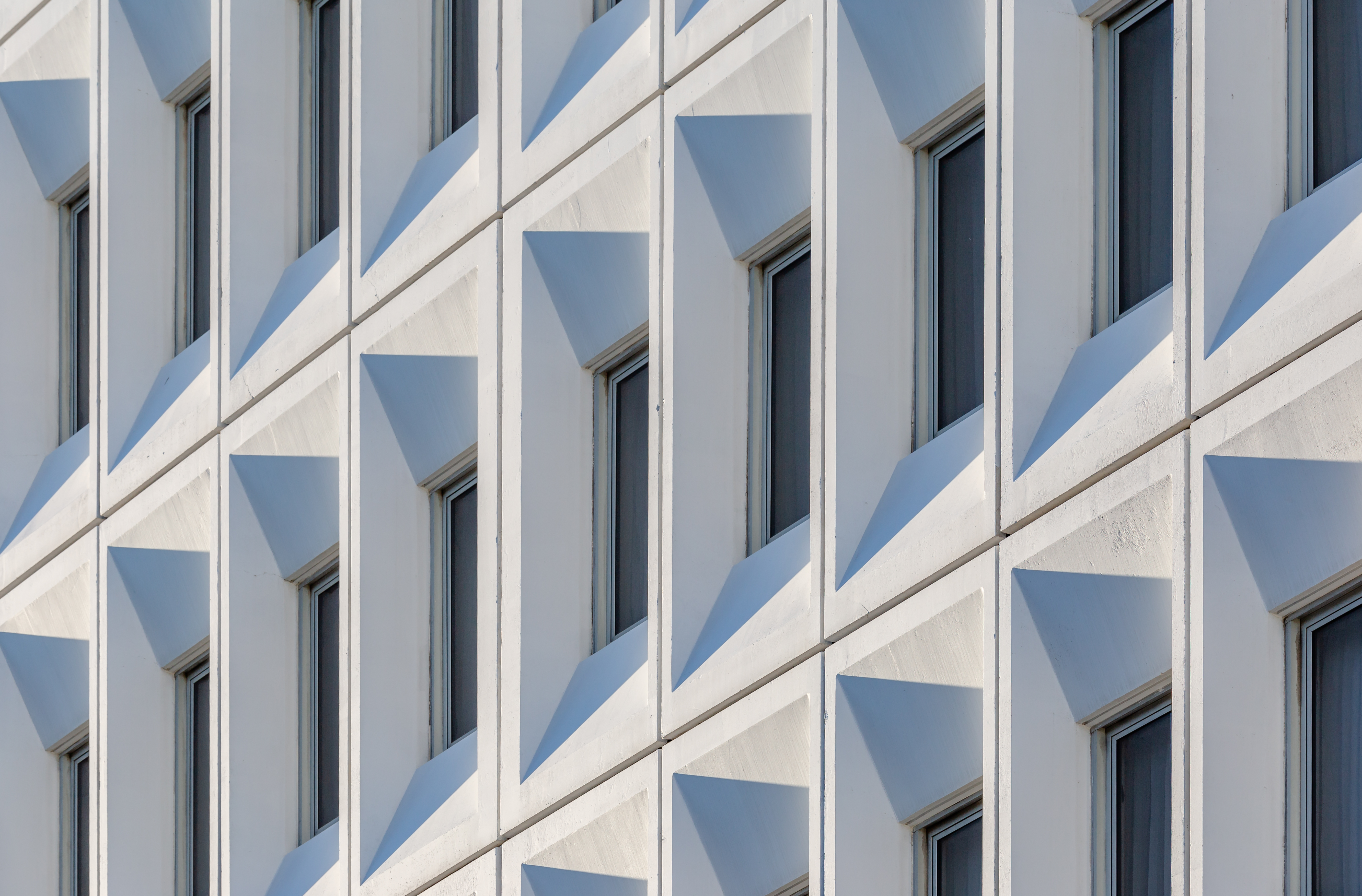 Detail of Distinction Hotel facade, Christchurch, New Zealand